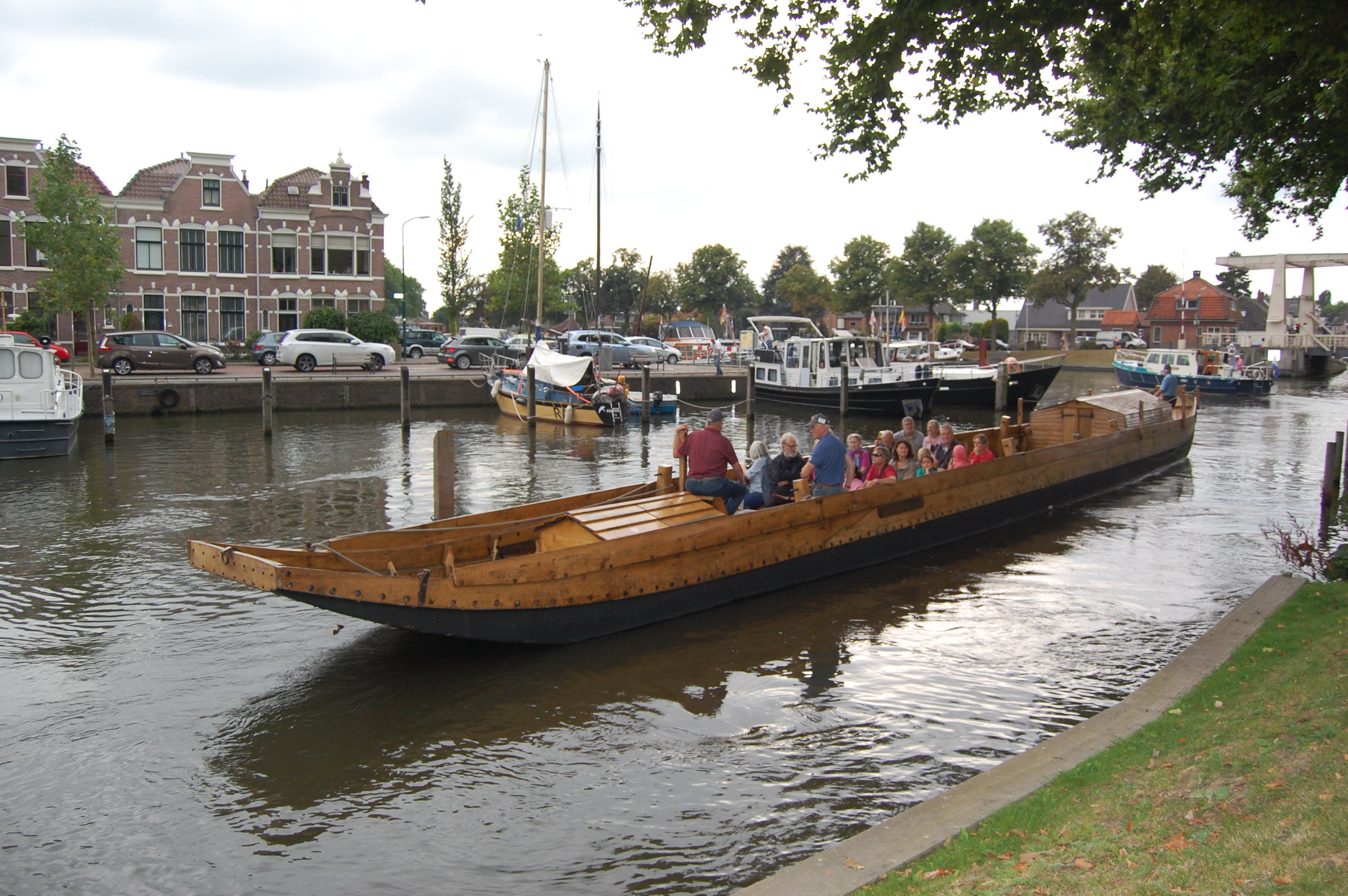 Reconstructed Roman ship from De Meern, seen in Woerden.